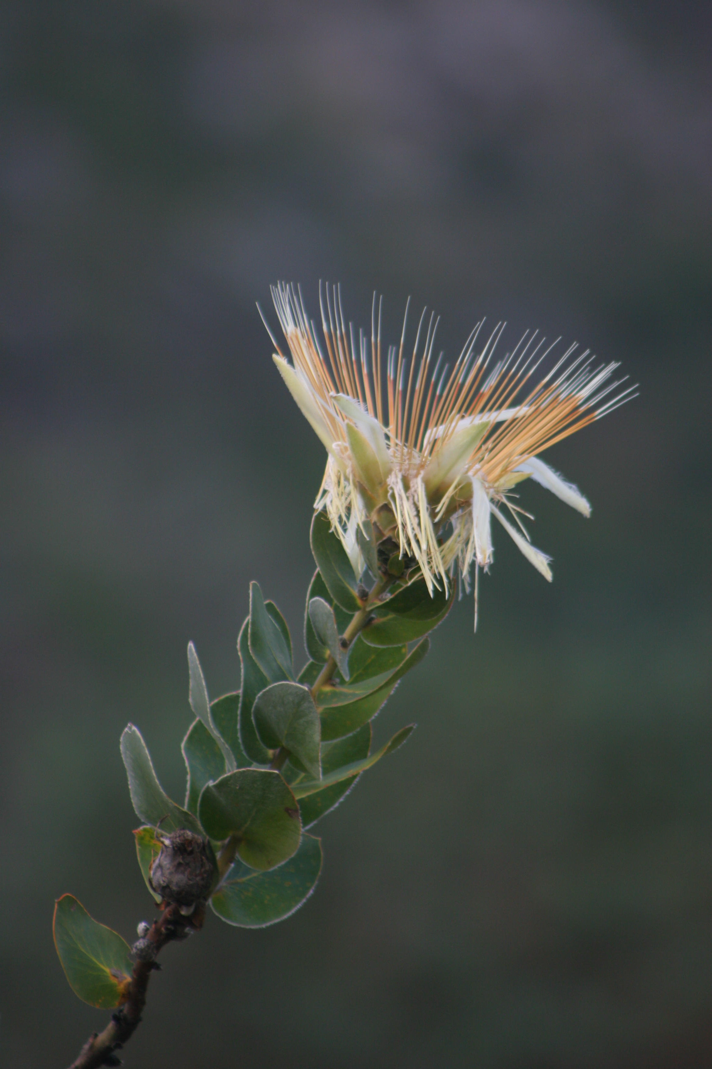 Protea Aurea, taken at Kirstenbosch, South Africa